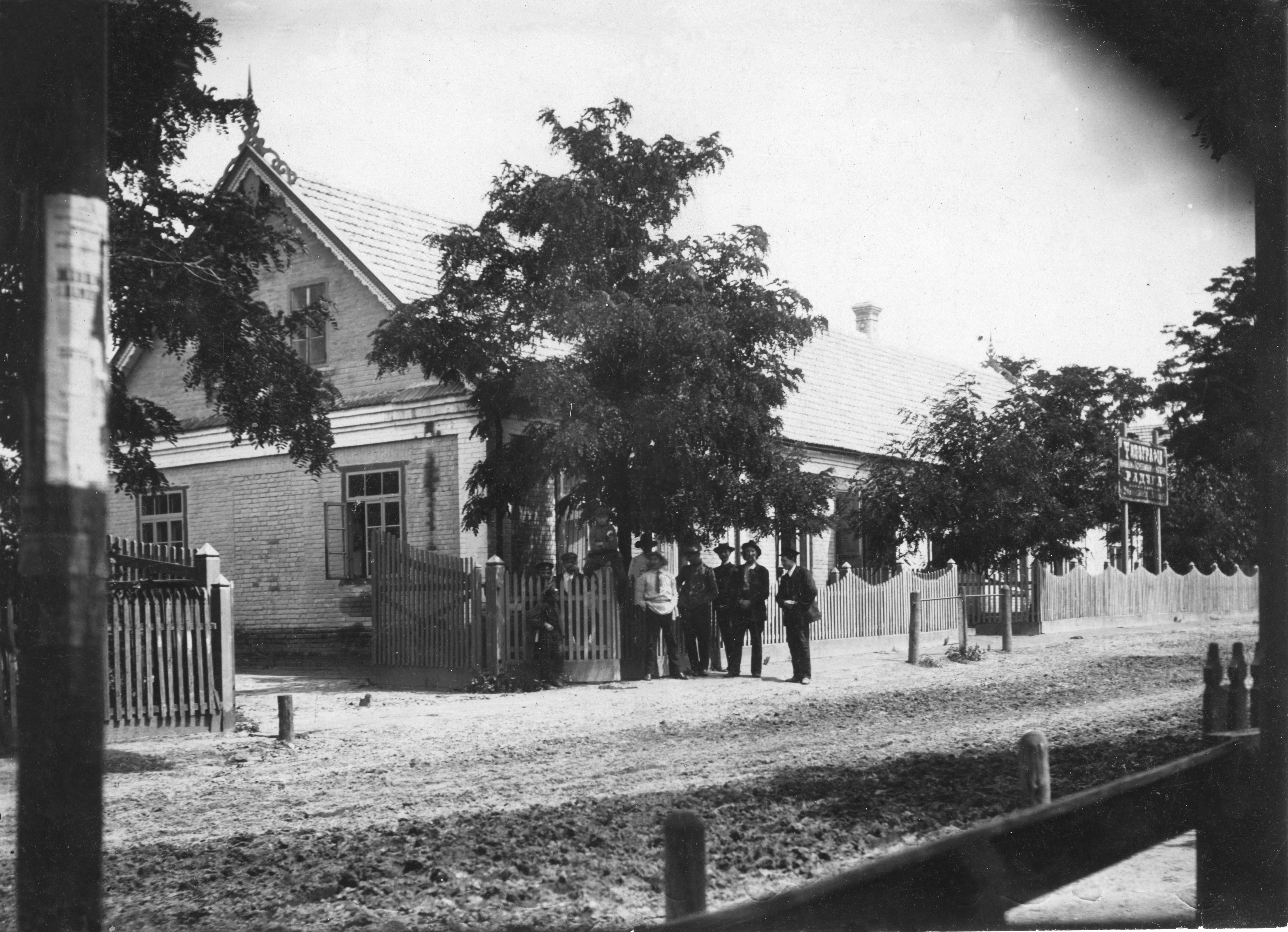 Gospel publishing house Raduga (Rainbow) in the German Mennonite colony Halbstadt (now Molochansk) in the Russian Empire (restored version of the photo)